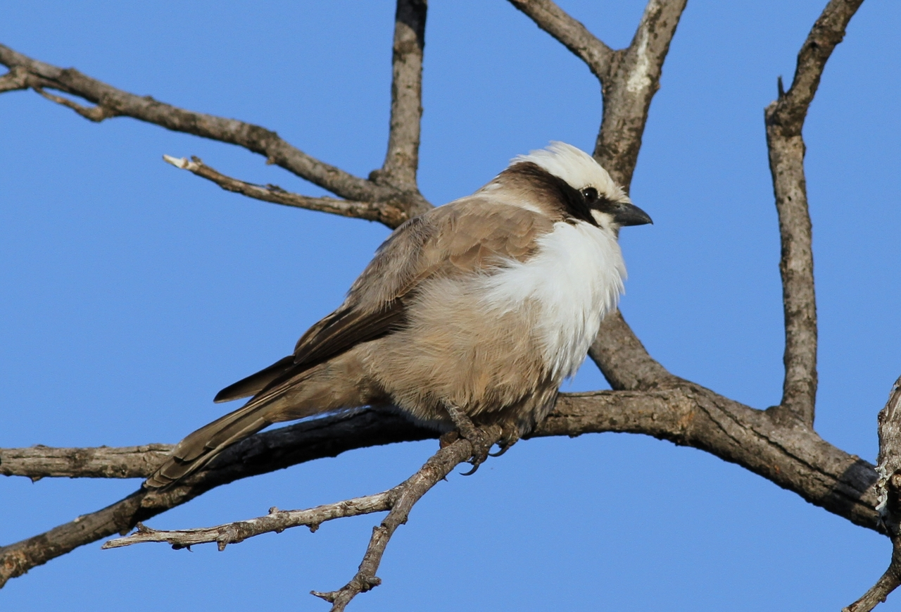 Southern White-crowned Shrike, Eurocephalus anguitimens, gleaning ants from the early morning soil at Marakele National Park, South Africa